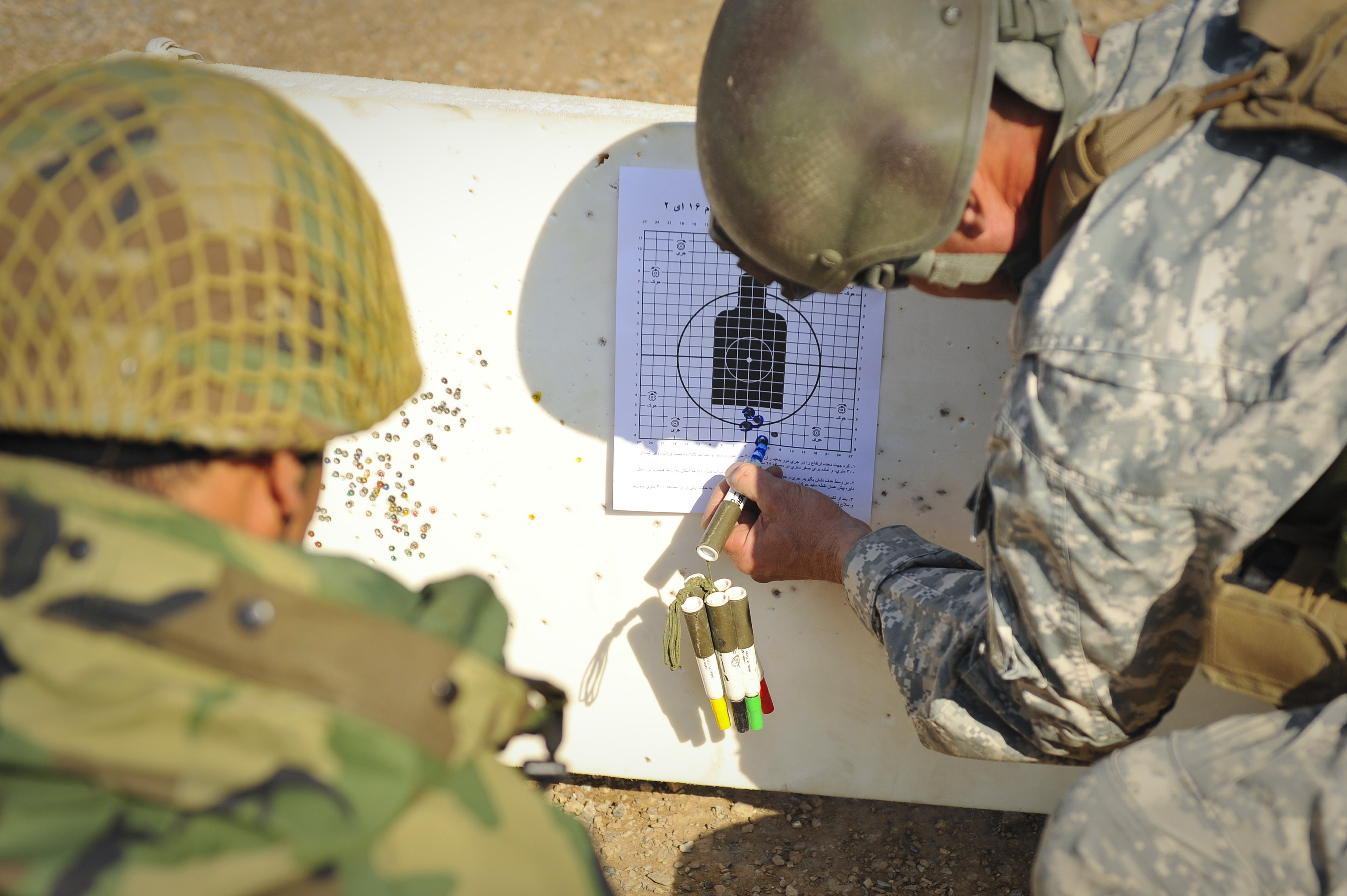 An United States Army Marksmanship Unit member places marks on a zeroing target to show an Afghan National Army soldier where his shots were and what adjustments to make during the Basic Rifle Marksmanship Instructor Course at Kabul Military Training Center, Afghanistan, Nov. 6, 2010. After the ten-day course the soldiers will be able to instruct ANA trainees in basic marksmanship. (ISAF photo by: U.S. Air Force Staff Sgt. Joseph Swafford) Unit: ISAF Joint Command DVIDS Tags: M-16; Rifle range; Pasadena; Cleveland; Mich.; La.; Ala.; US Army Reserve; Kabul Military Training Center; IJC; California; Afghanistan; U.S. Army; ISAF; Tenn.; Clinton Township; Phenix City; Train-the-trainer; Basic Rifle Marksmanship Instructor Course; Afghan National Army Rifle Range; United States Army Marksmanship Unit; Nauvoo; Bogalusa; U.S. Army trains Afghan National Army Instructors; President's hundred